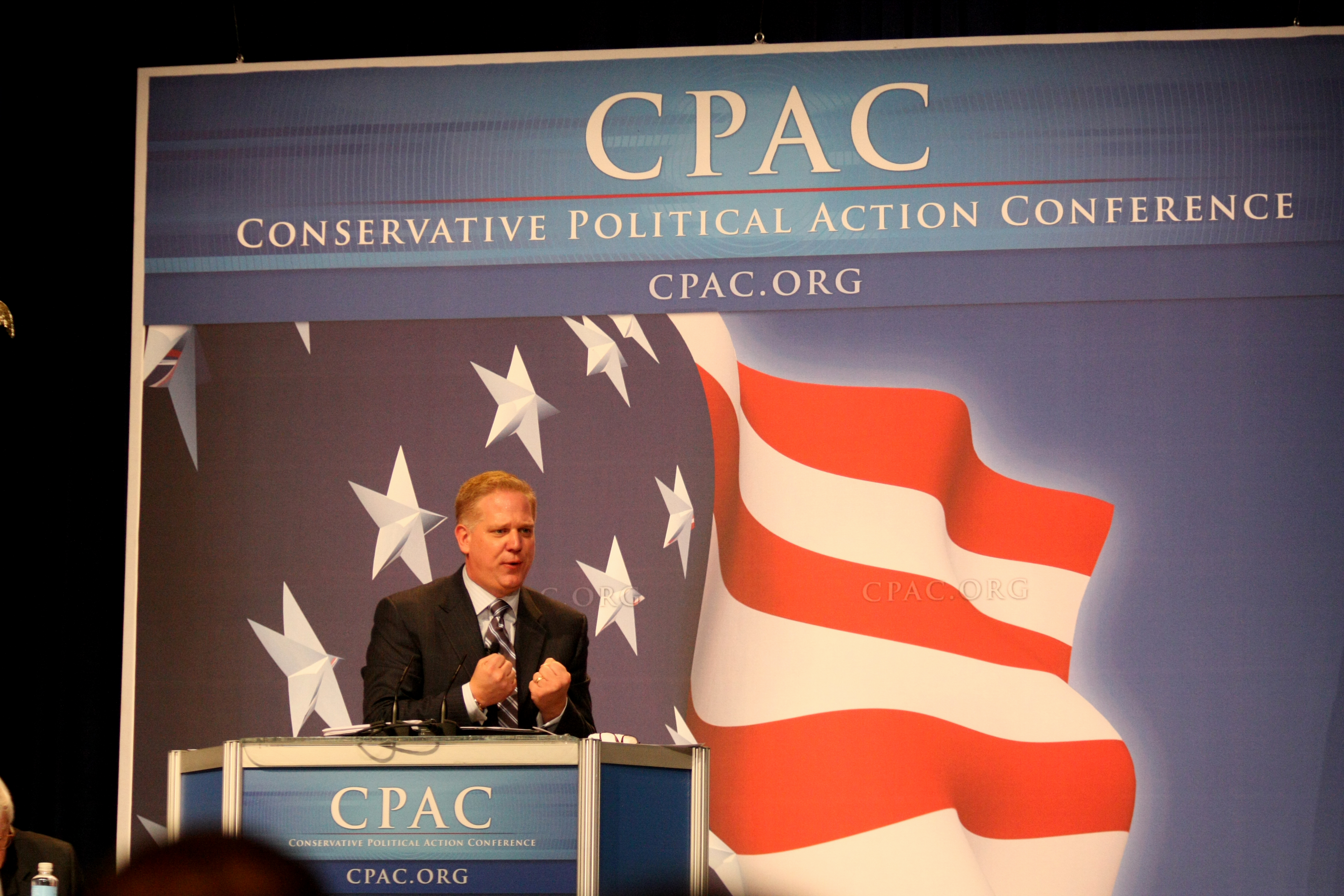 Television and radio host Glenn Beck at CPAC in Washington, D.C..